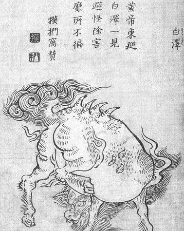 Hakutaku (白沢, Bai Ze - the wise Bai Ze beast of China, who reported on the attributes of demons) from the Konjaku Hyakki Shūi (今昔百鬼拾遺)